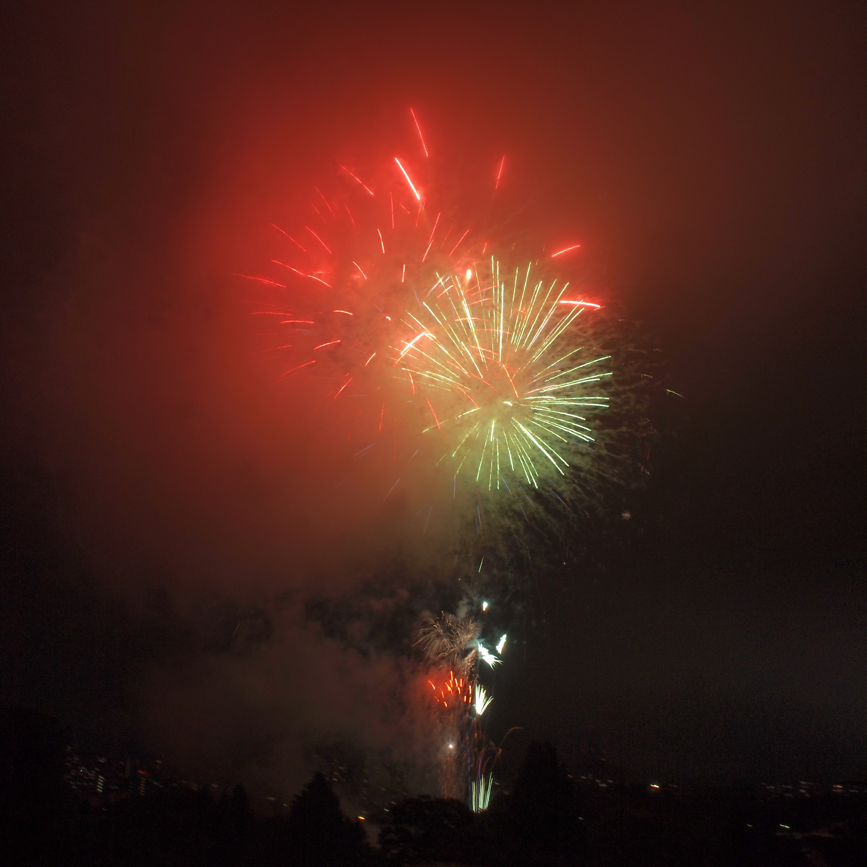 The 40th anniversary competition of the Sendai Tanabata Fireworks Festival on the theme of "Ring of Love" in Aoba-ku, Sendai in 2009.